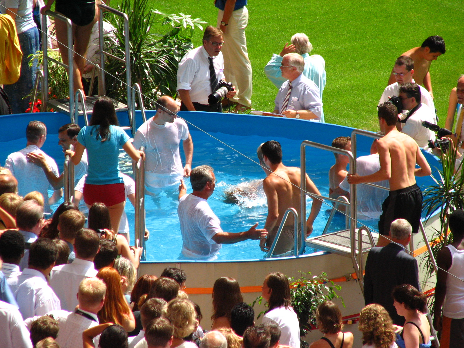 Baptism at the international convention of Jehovah's Witnesses in Hamburg, Germany in 2006; Visitors came from Belgium, Denmark, Germany, The Netherlands, Norway, Sweden, and USA